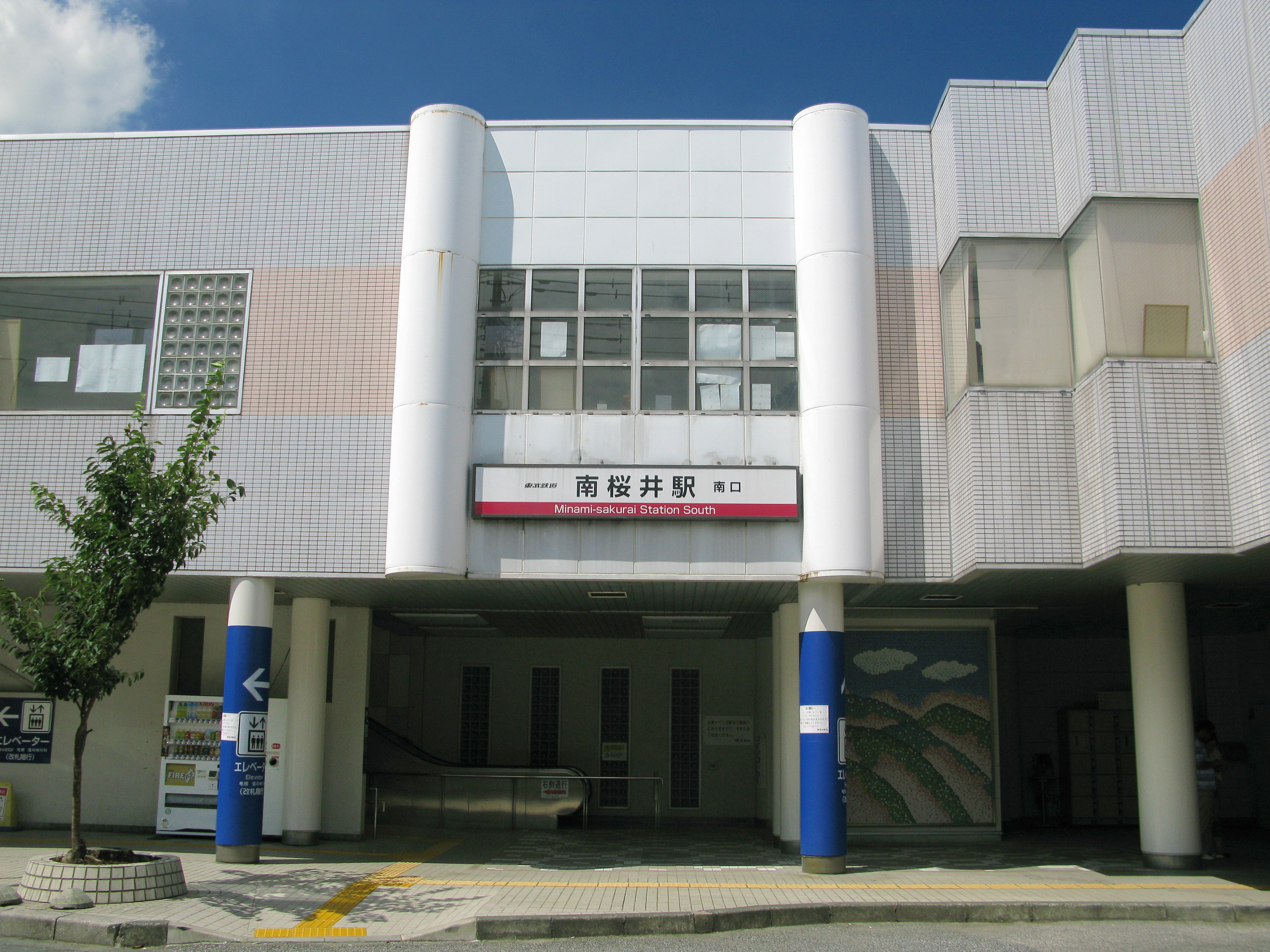 Minami-Sakurai Station on the Tobu Urban Park Line in Kasukabe, Saitama Prefecture, Japan